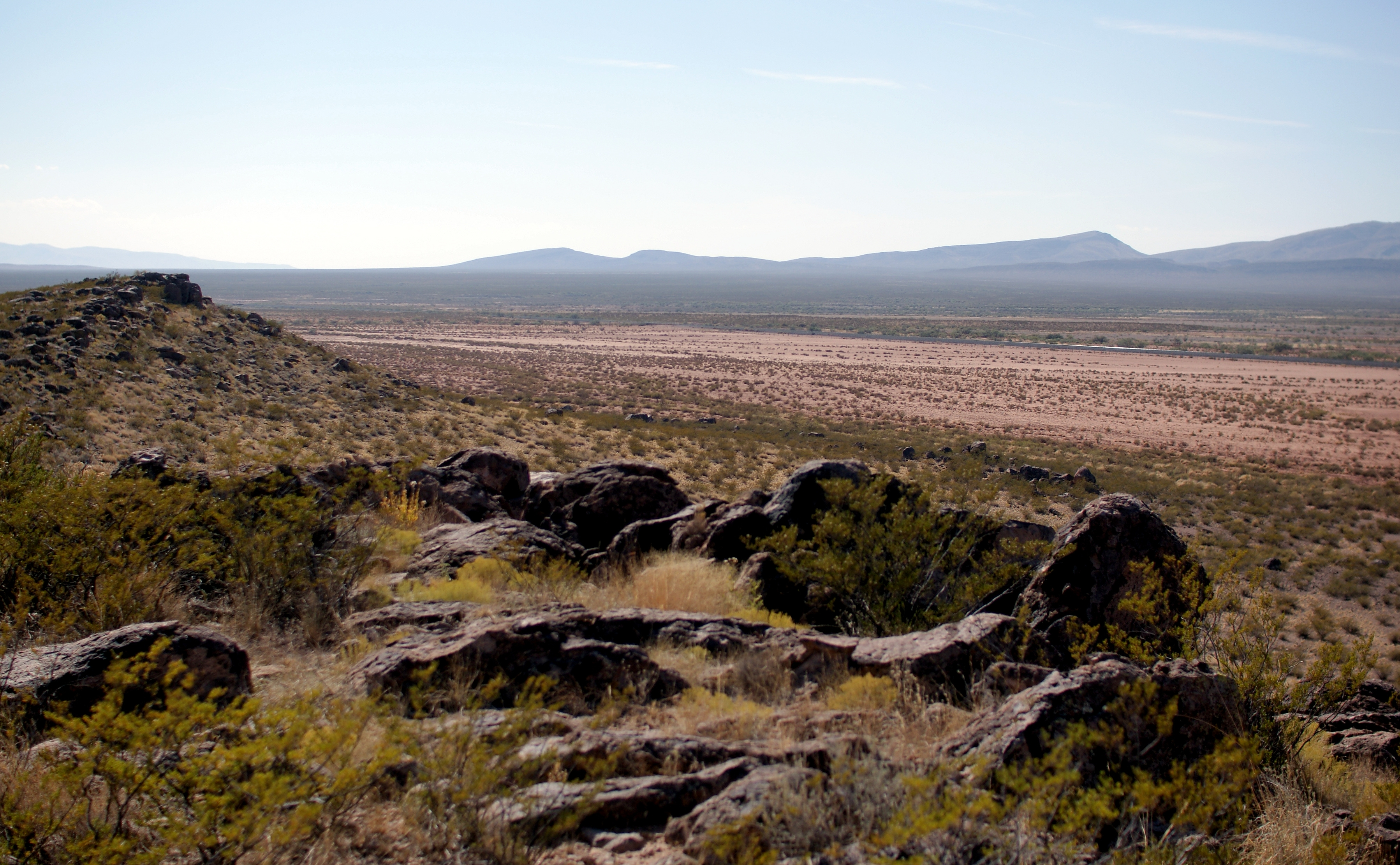 Looking southeast from the Point of Rocks along El Camino Real de Tierra Adentro. In the immediate valley below lies a railroad that follows much of the trail's original route, and to the far left lies the tail end of the Robledo Mountains northwest of Las Cruces. The El Camino Real de Tierra Adentro (Spanish for "The Royal Road of the Interior Land") is an ancient travel route between Santa Fe and Mexico City, whose use started in the late 16th century. The portion that travels through New Mexico passes through an arid desert known as the Jornada del Muerto (Spanish for "Journey of the Dead Man"), within which was recently created a National Historic Trail. Portions of this trail are open for hiking. Seen at: • The Professor Who Stole Ancient New Mexico Artifacts